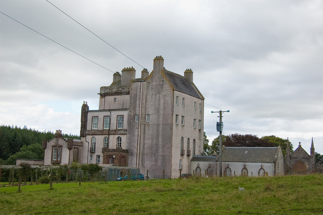 Delgatie Castle, rear elevation